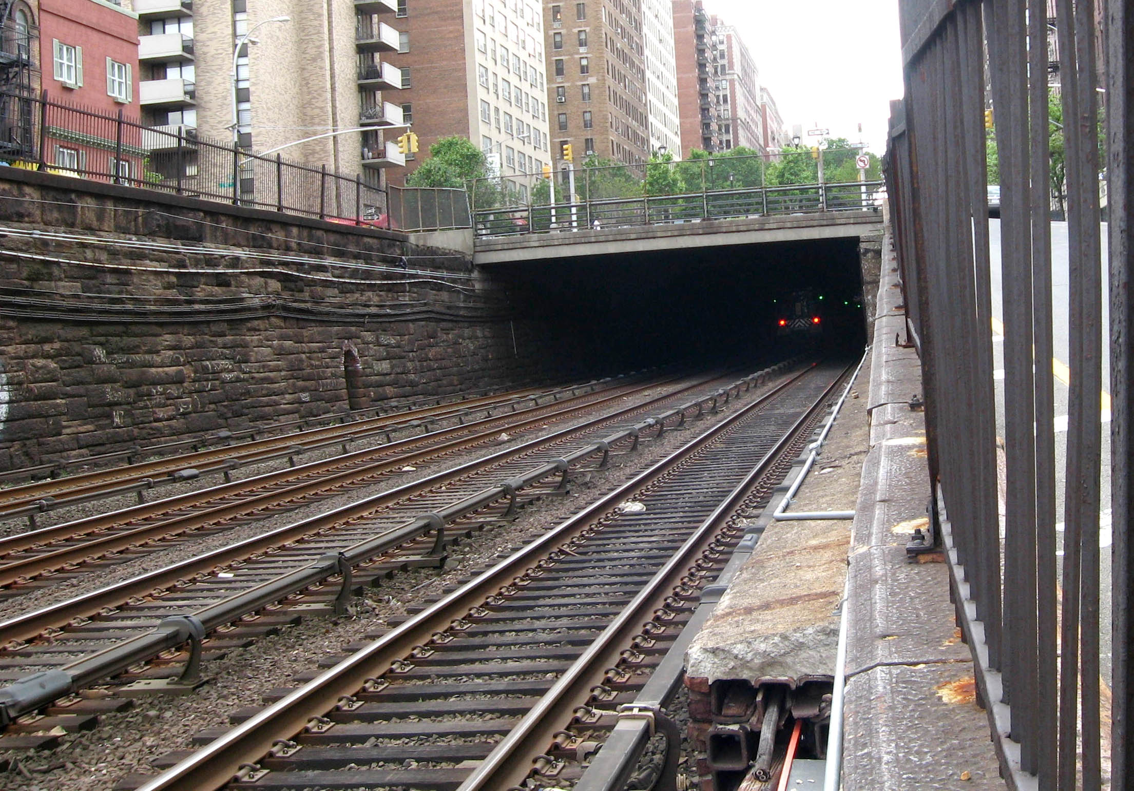 Lookng south into the Park Avenue Tunnel after a train whose lights are still visible on this mostly cloudy afternoon.